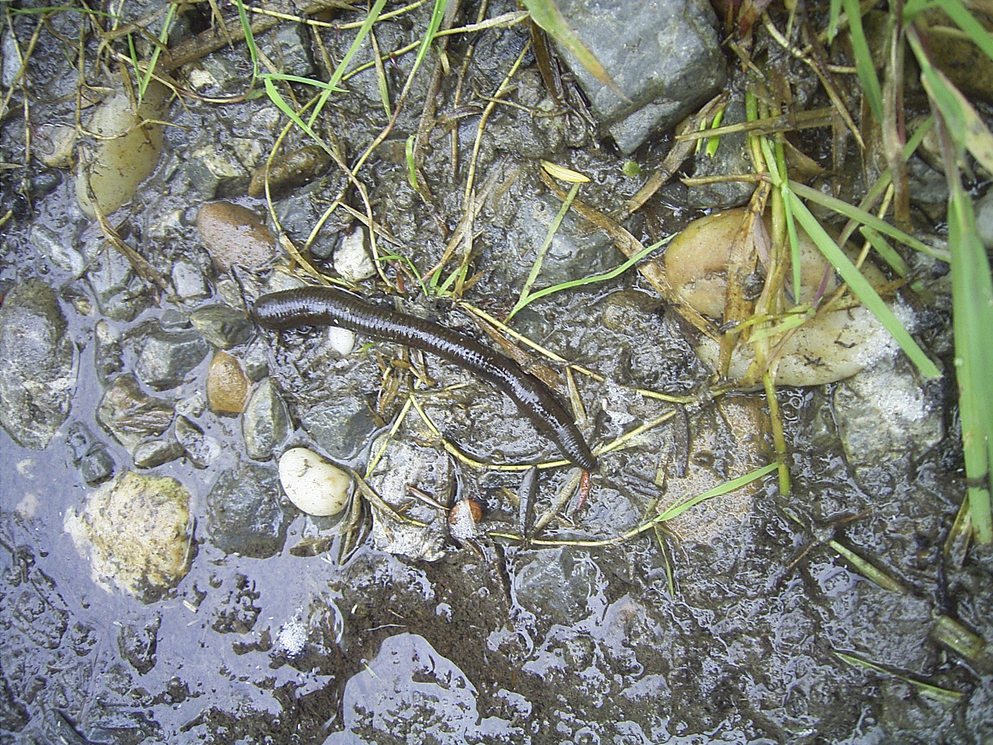 Haemopis species at Danube-Auen National Park, Vienna, June 2006.